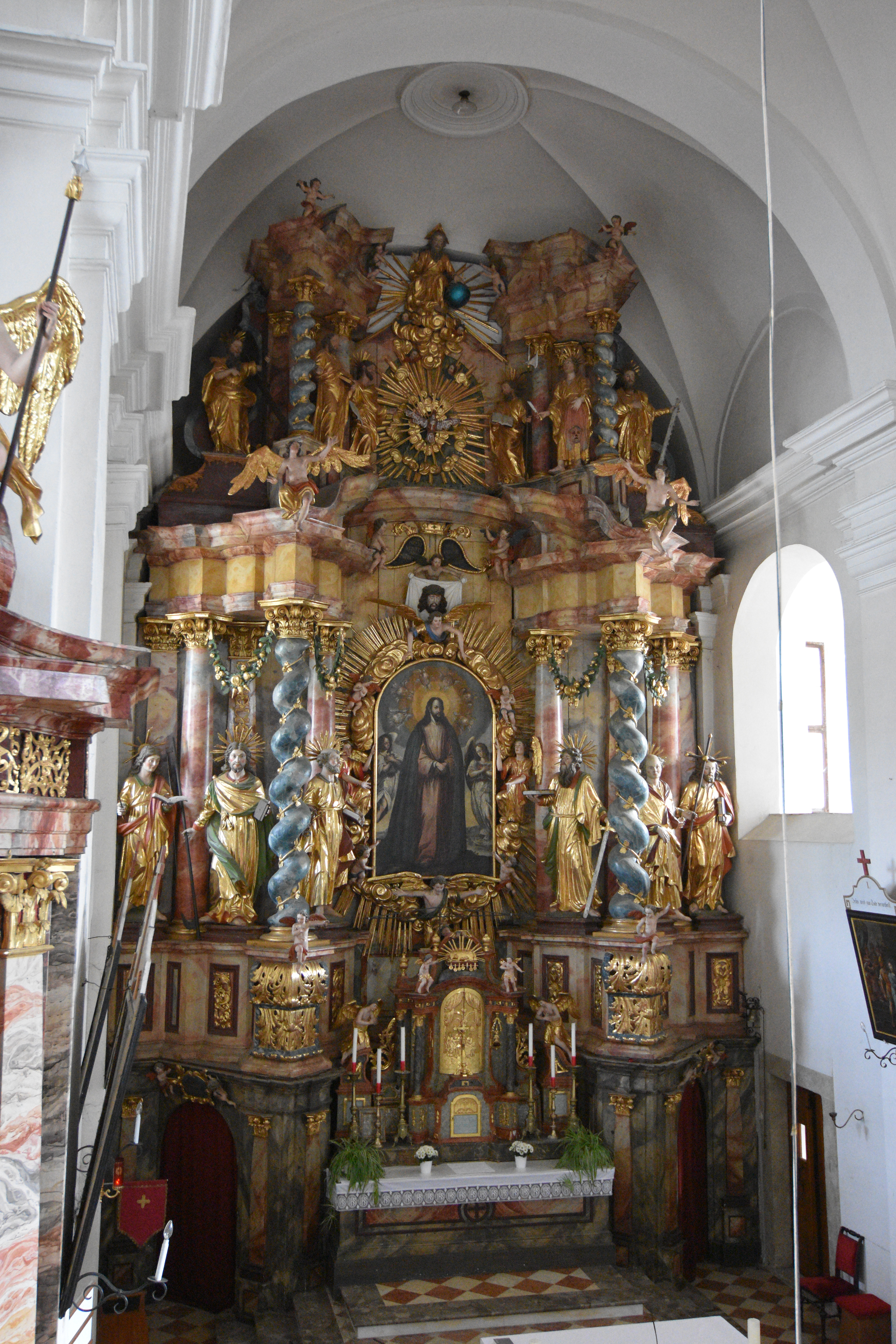 Salvator Church (Breitenfeld an der Rittschein) - Interior